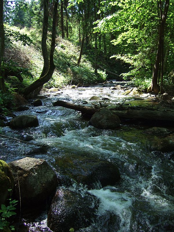 River Saidė (Lithuania)